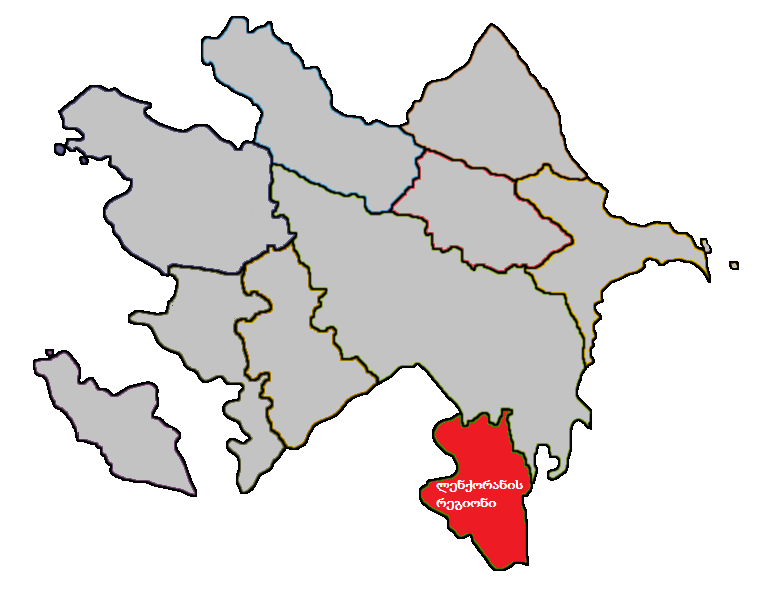 Lankaran region.